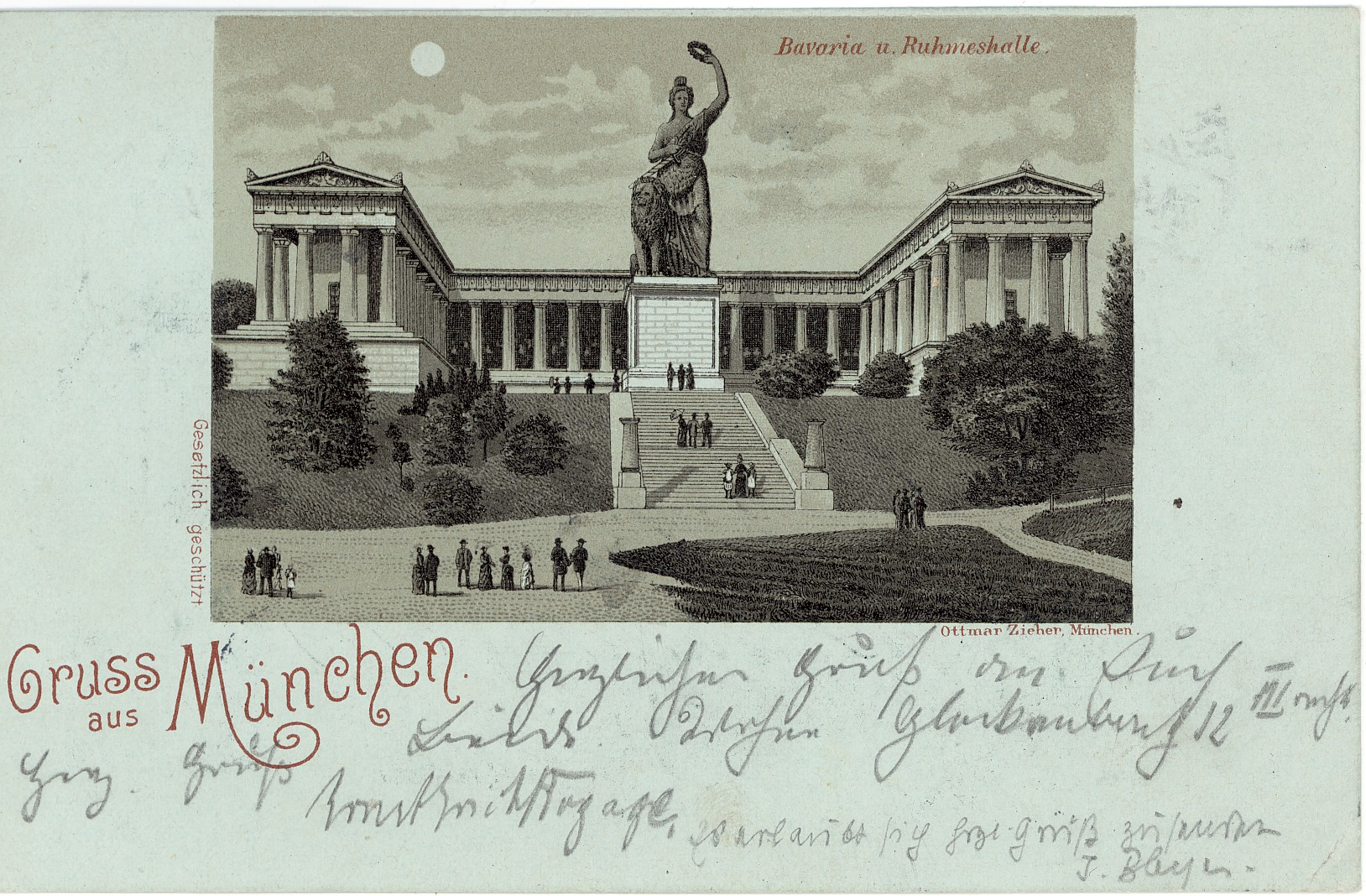 picture postcard:Bavaria and Ruhmeshalle in Munich (München)